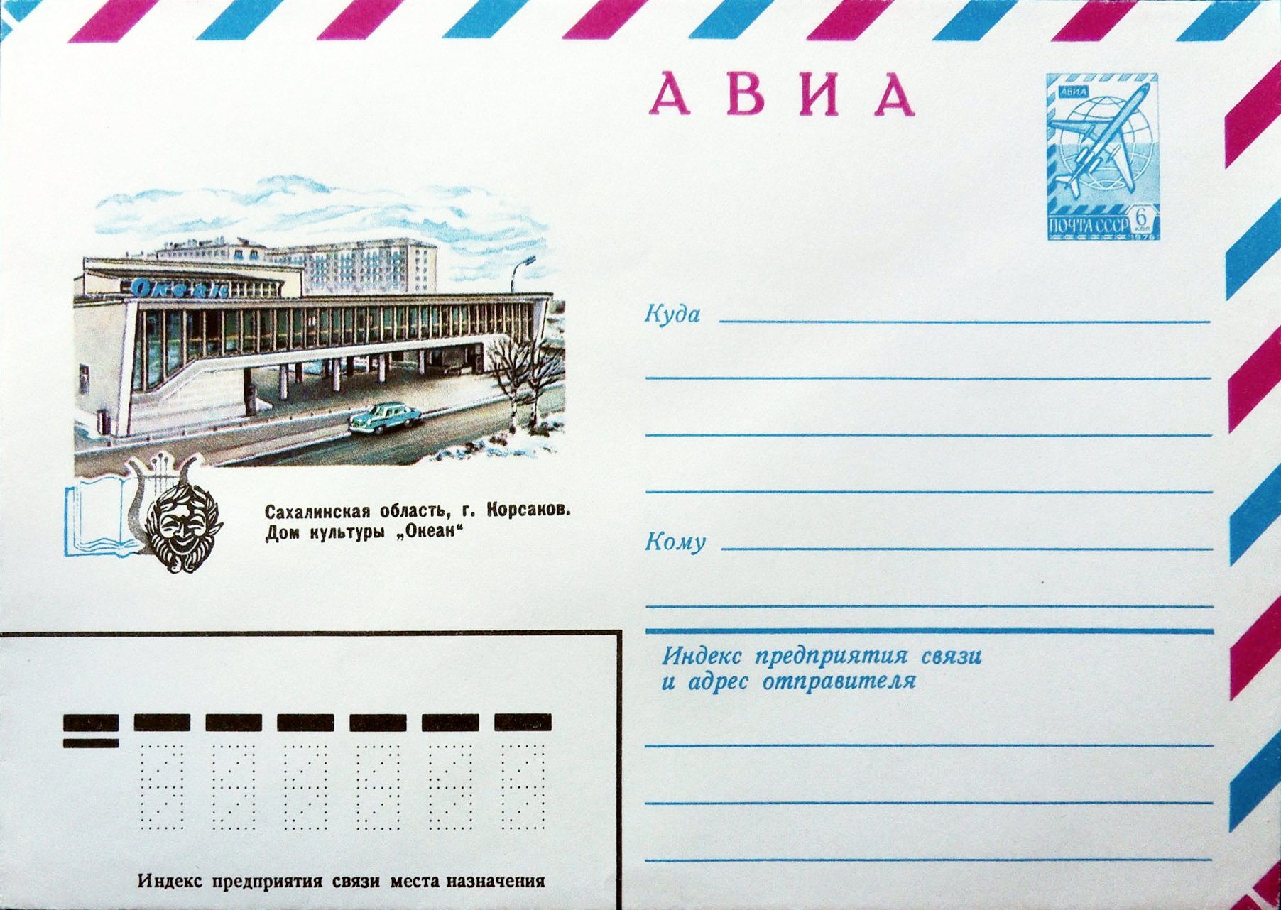 House of Culture "Okean" built in Korsakov town (Sakhalin region) in 1971.